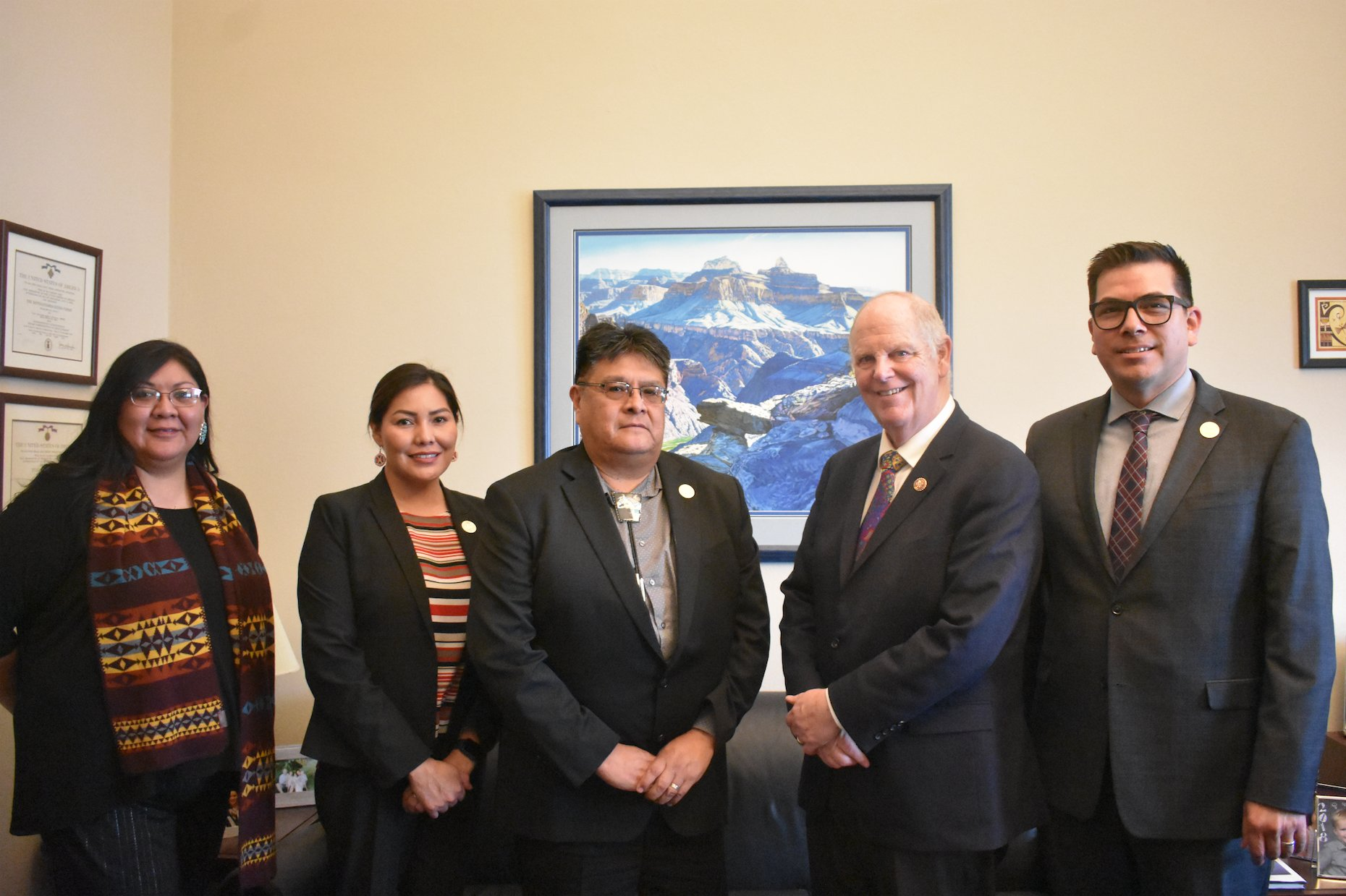 I am grateful for the opportunity to have met with the Navajo Nation Housing Authority this week to discuss housing issues across #AZ01. I am looking forward to working together to identify lasting, effective solutions.